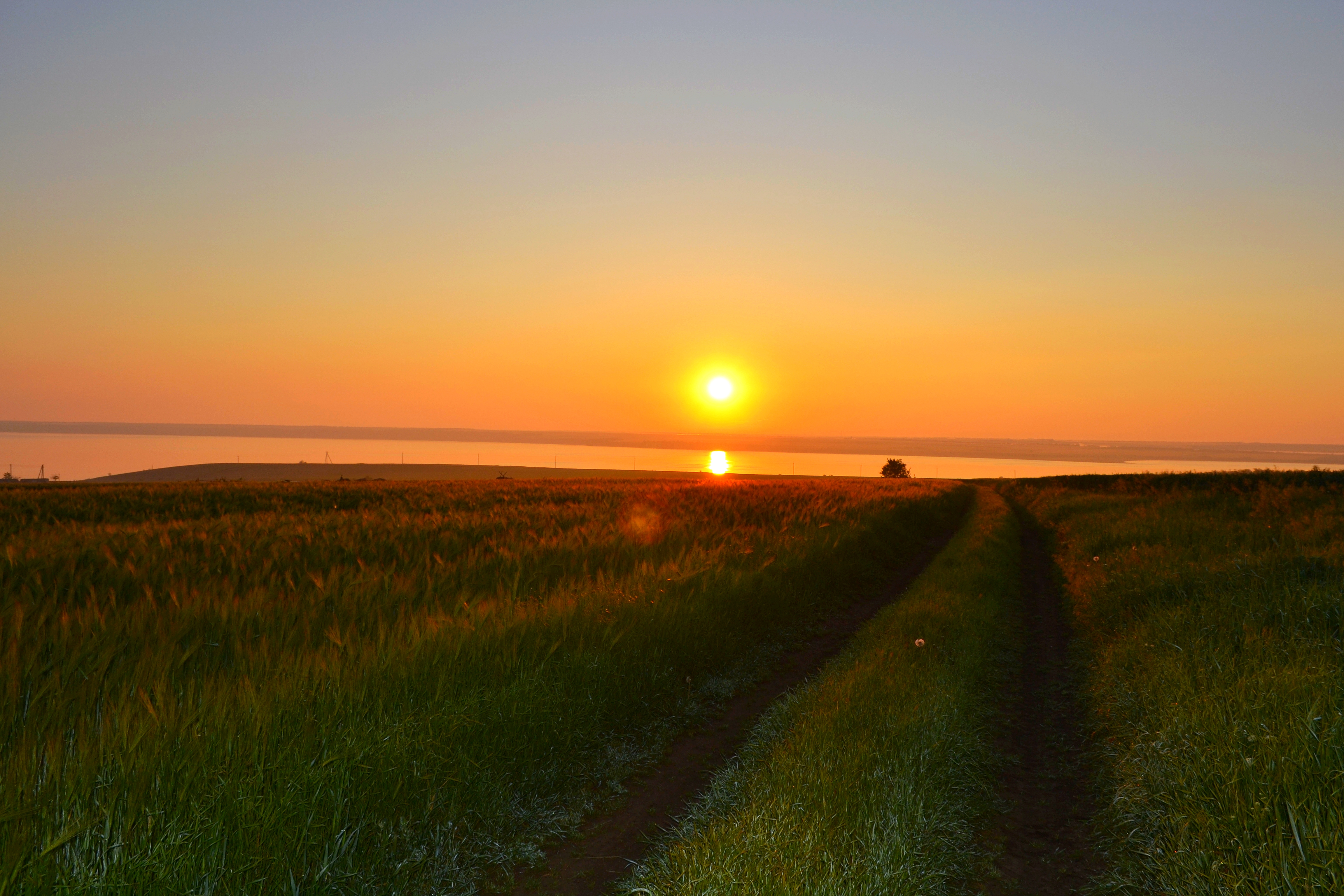 Path to liman